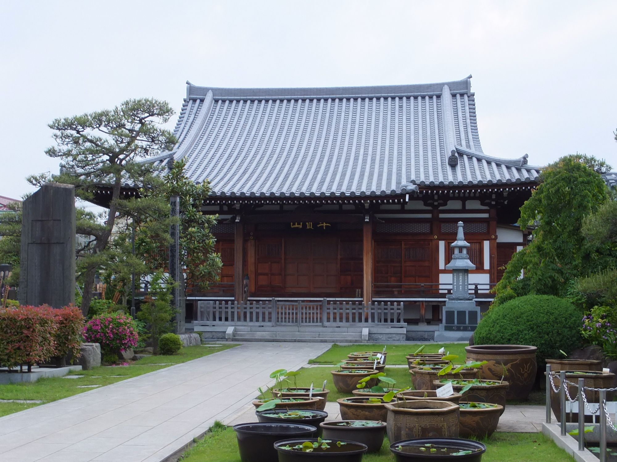 Saishō-ji temple in Edogawa, Tokyo